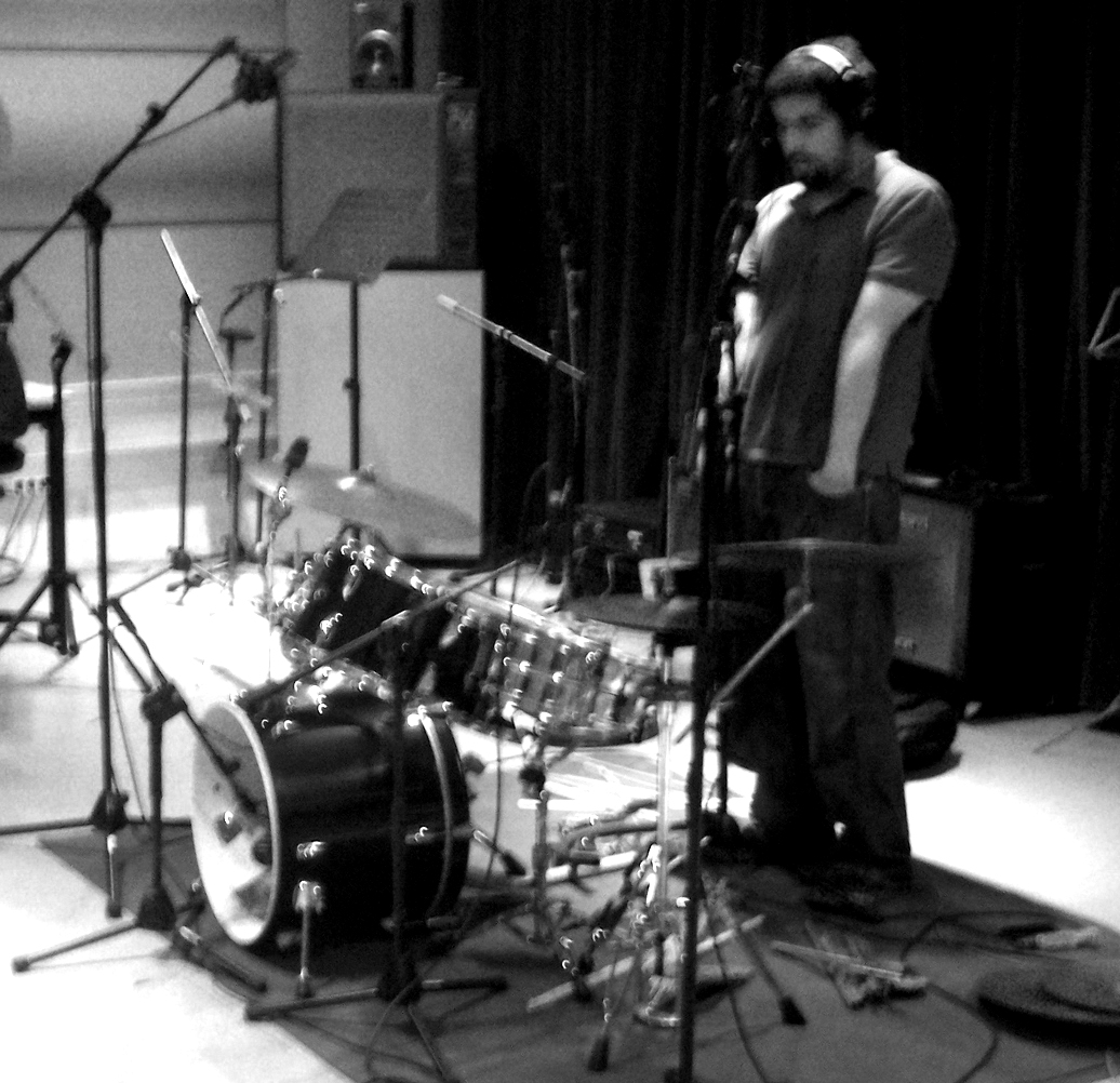 Julian Bonequi Universitat Pompeu Fabra, Barcelona